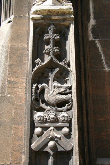 Bishop Longland heraldry. Heraldic decoration on the Longland Chantry 904951. John Longland (died 1547), Bishop of Lincoln from 1521 to his death in 1547.